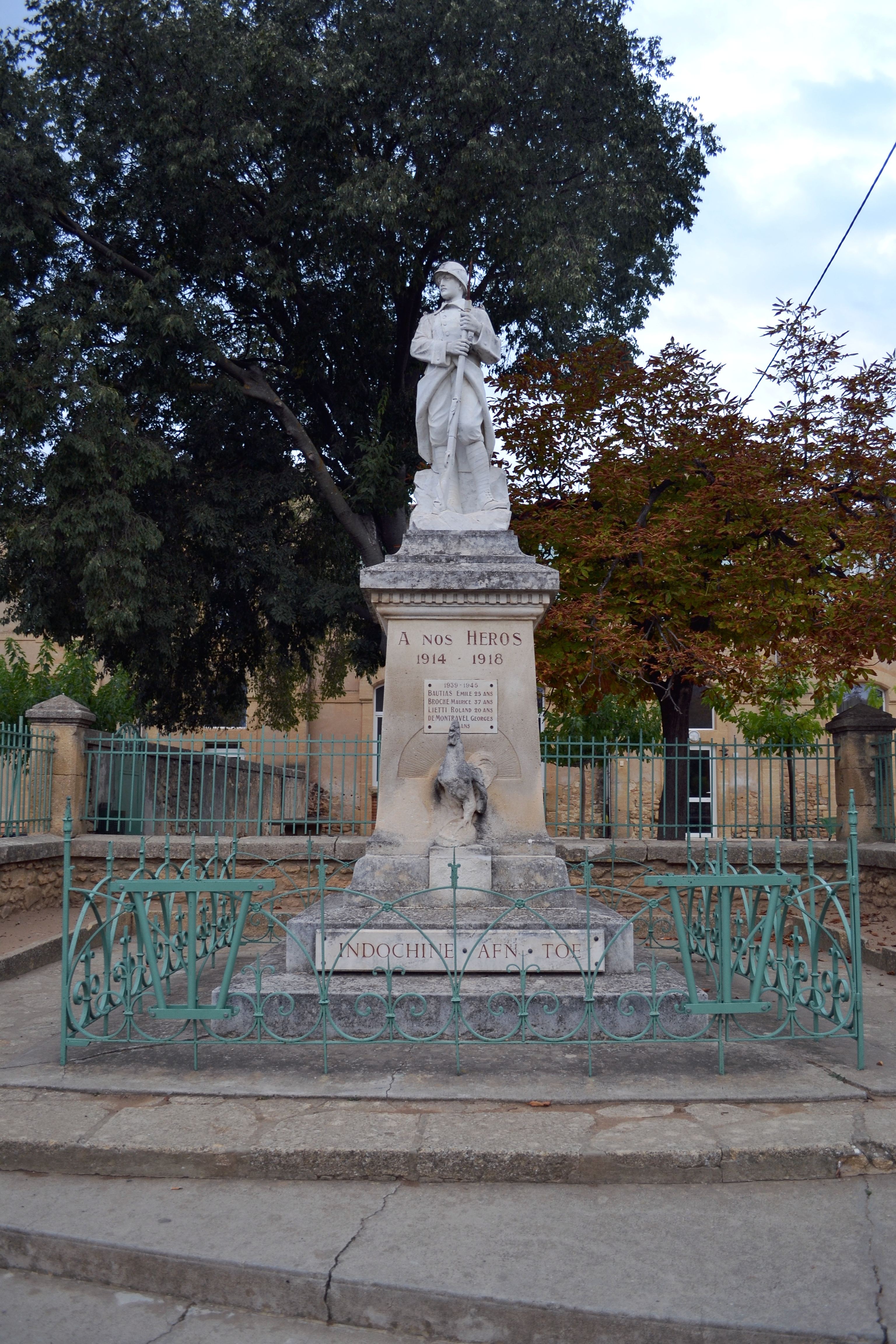 Memorial of World War I in Vers-Pont-du-Gard, Gard department, Languedoc-Roussillon region, France.